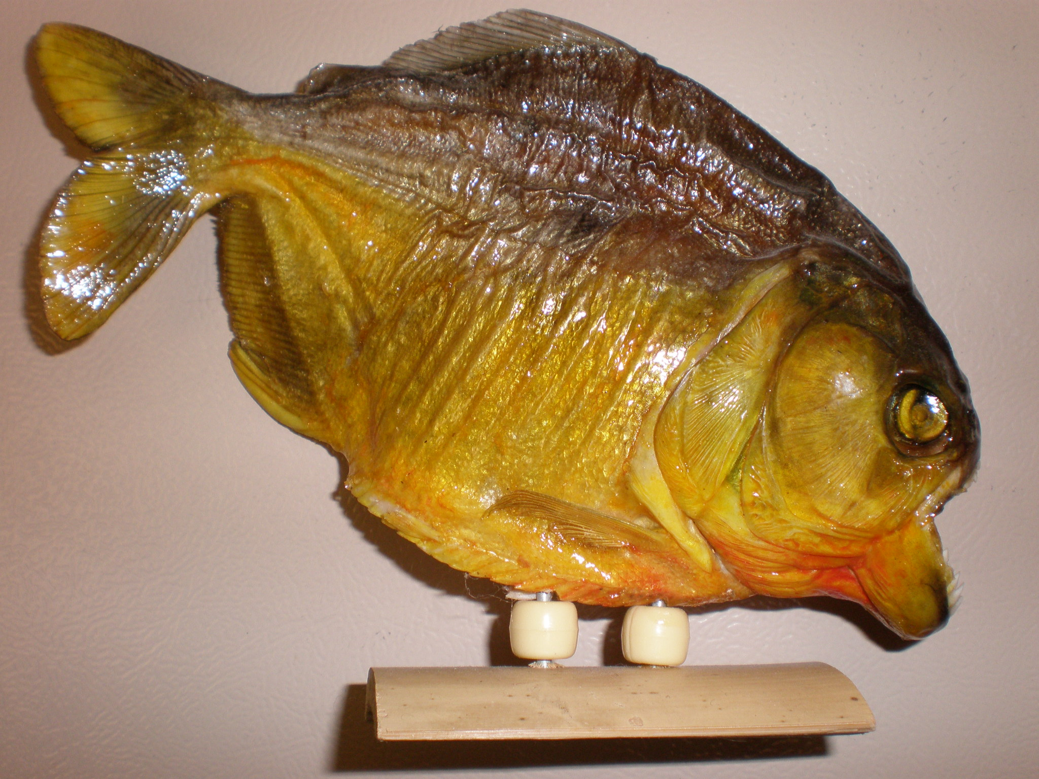 A dried piranha sold as a souvenir. Exact species unknown.